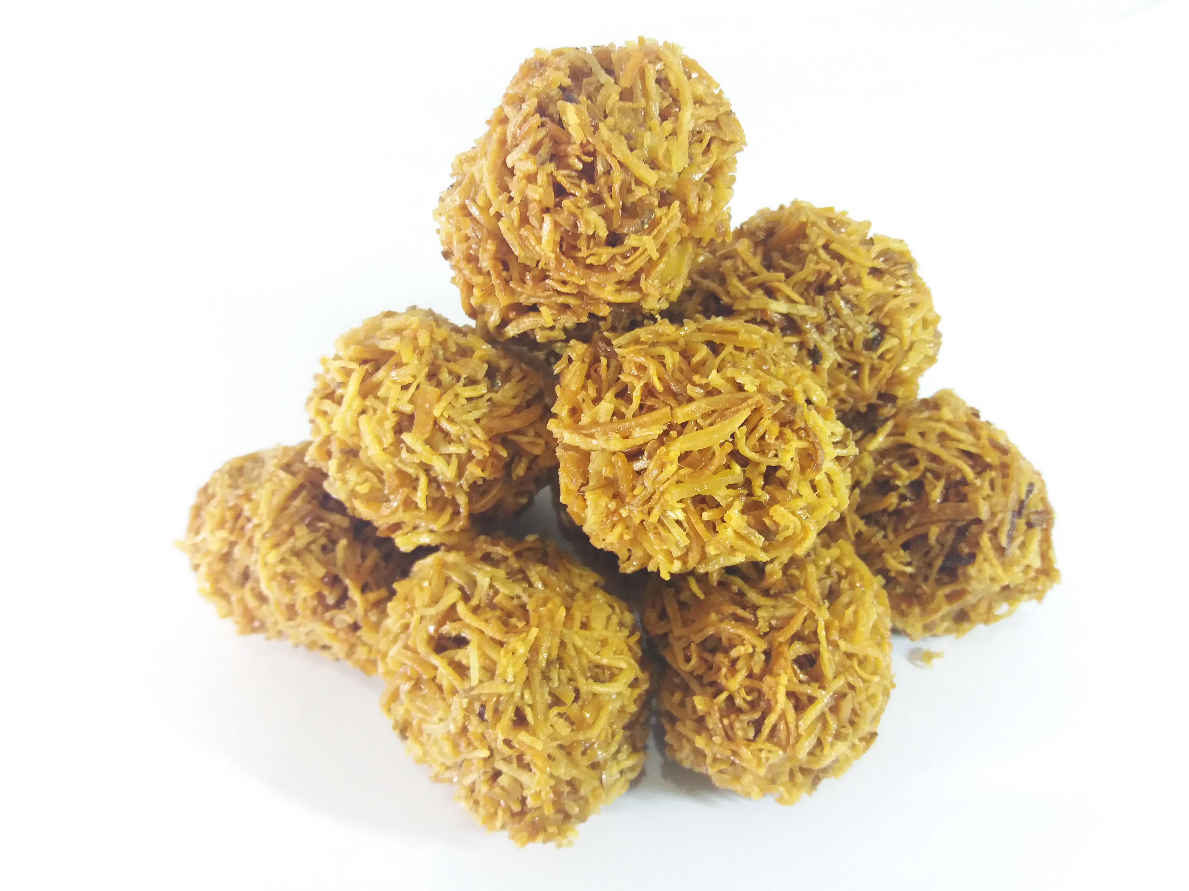 Grubu is traditional cake from Indonesia. This cake is made from yam.